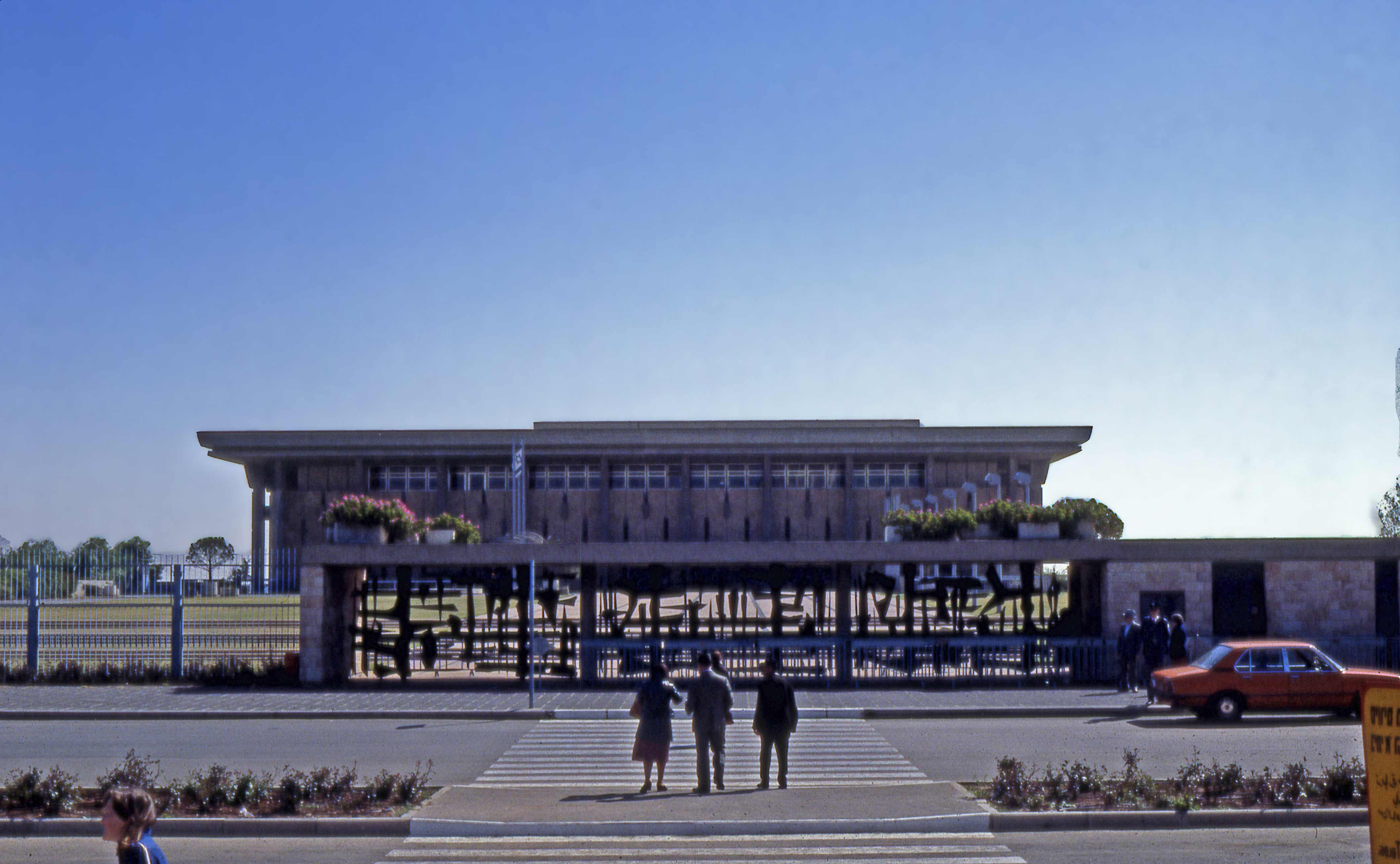 The Knesset, the Israeli parliament, building, in Jerusalem. Photography by Leif Knutsen